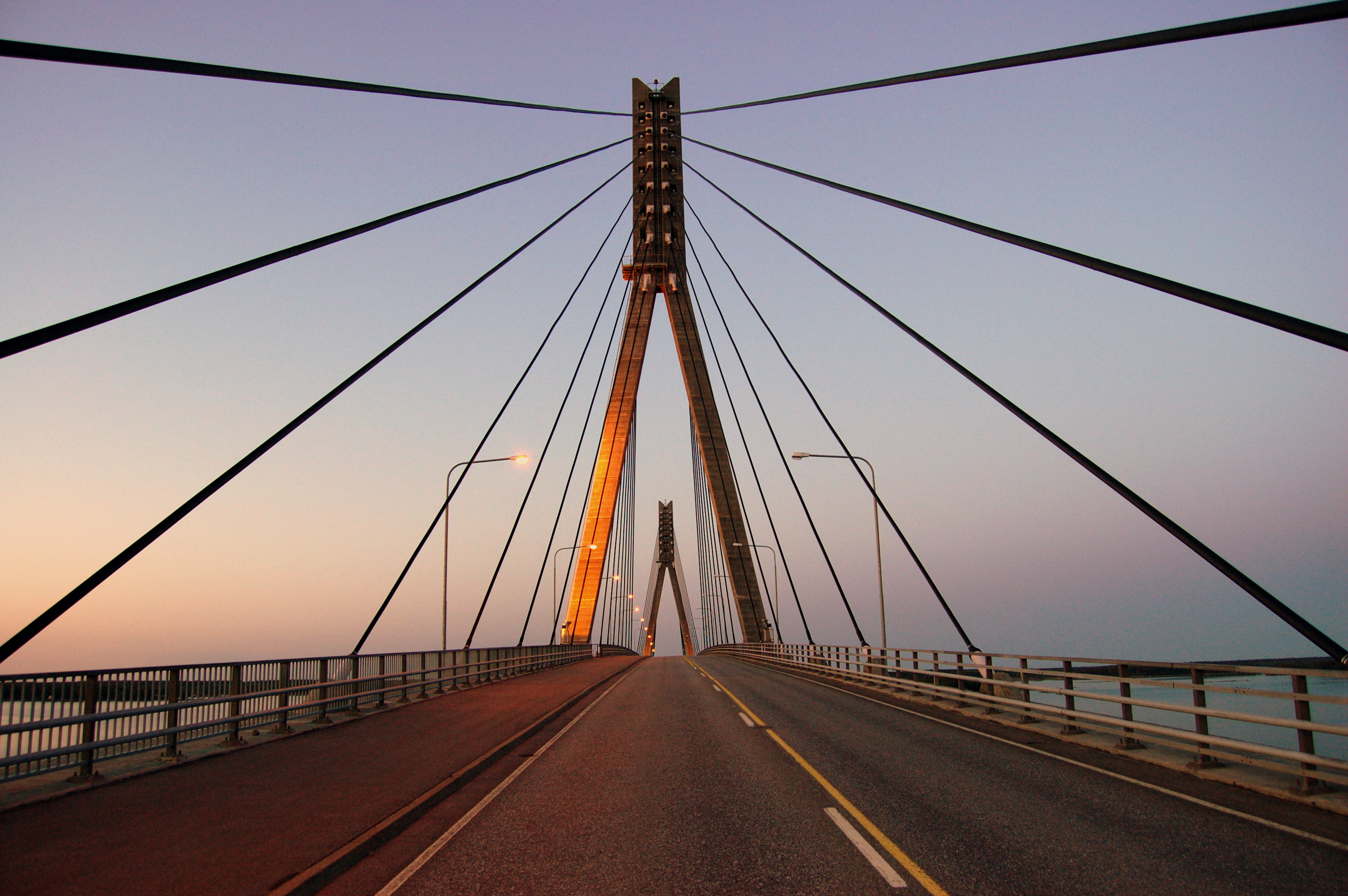 Replot (Raippaluoto) Bridge in Korsholm (Mustasaari), Finland. View of the towers (facing east).